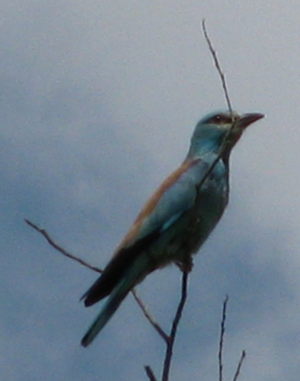 Coracias garrulus in Iran